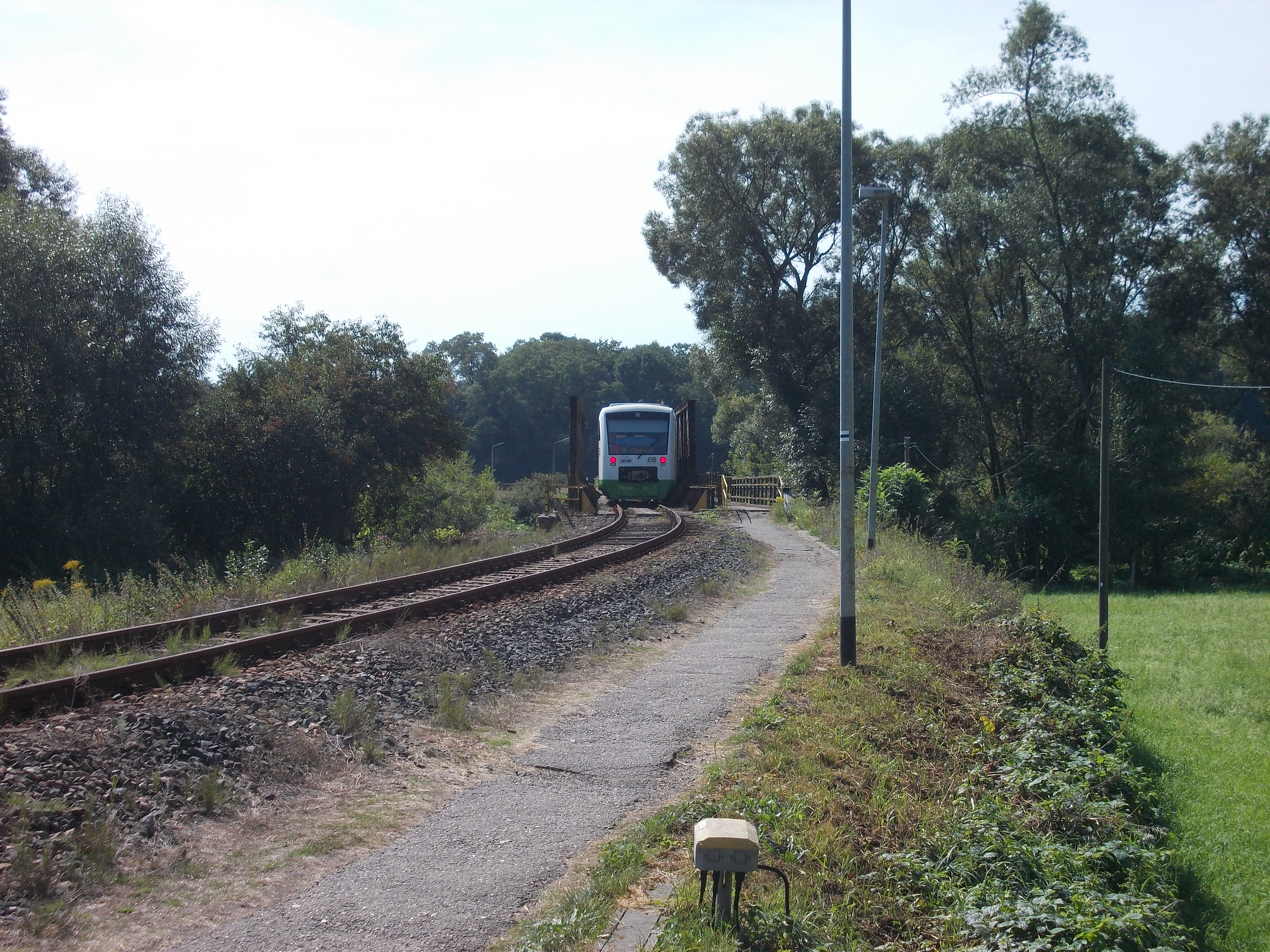 Railway bridge with footbridge over the Saale river at the Orla valley railway line between Orlamünde and Freienorla (district: Saale-Holzland-kreis, Thuringia)